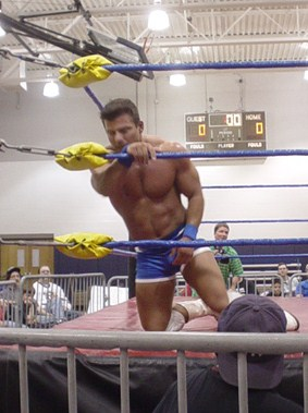 Matt Striker in the ring at an NWA Cyberspace show on May 21, 2005.